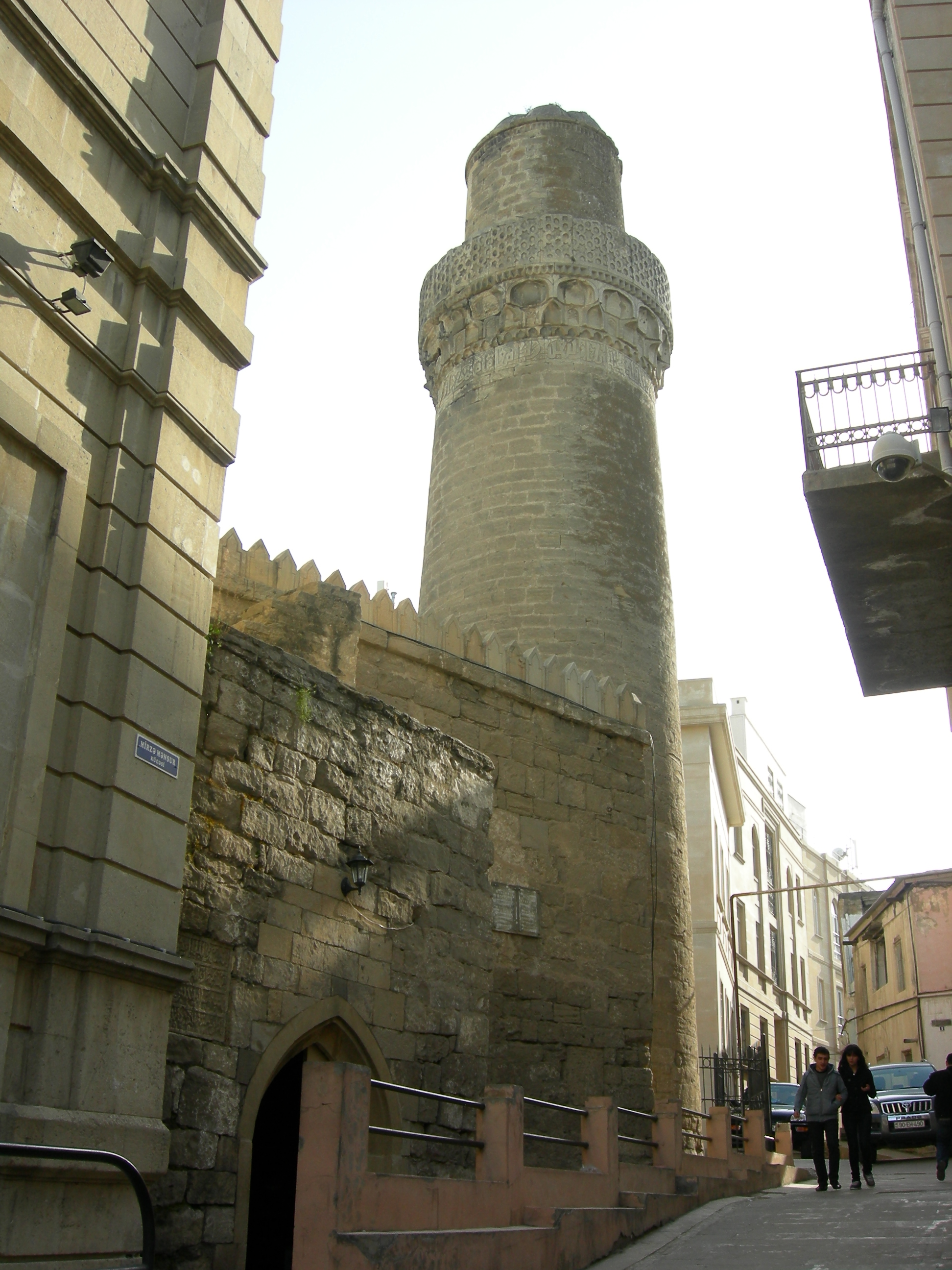 Mahammad Mosque with Minaret, Baku Old Town (Icheri Sheher), built 1078/79